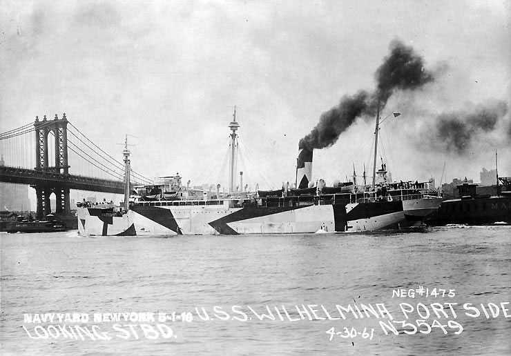 USS Wilhelmina (ID # 2168) Underway in New York Harbor, 1 May 1918, after being painted in "dazzle" camouflage. Photographed by the New York Navy Yard. U.S. Naval Historical Center Photograph.